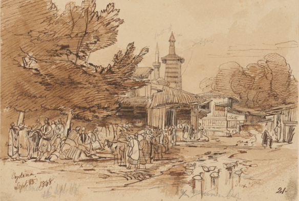 Voden 15 September 1848 Edward Lear